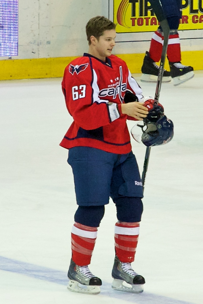 Andrew Gordon of the Washington Capitals.